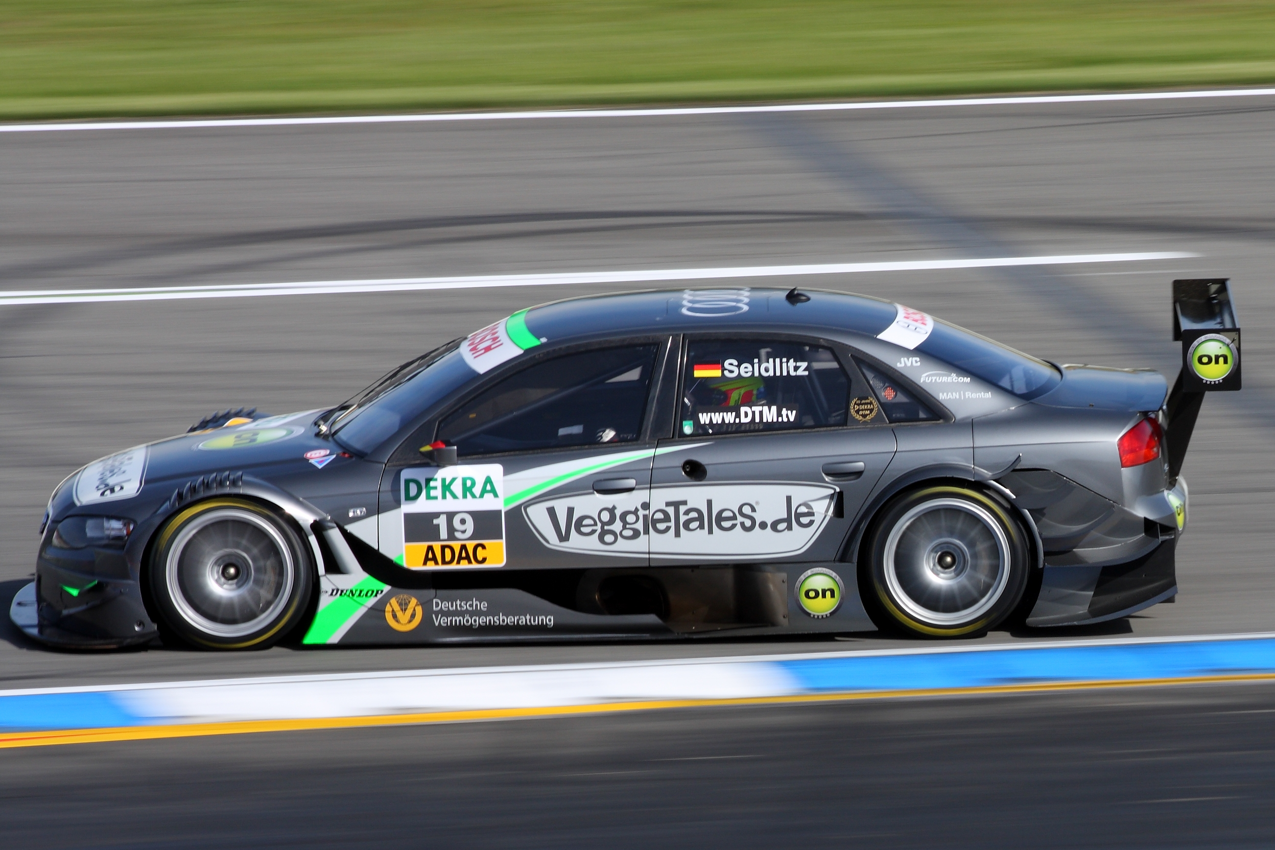 DTM Audi A4, Johannes Seidlitz (driver)